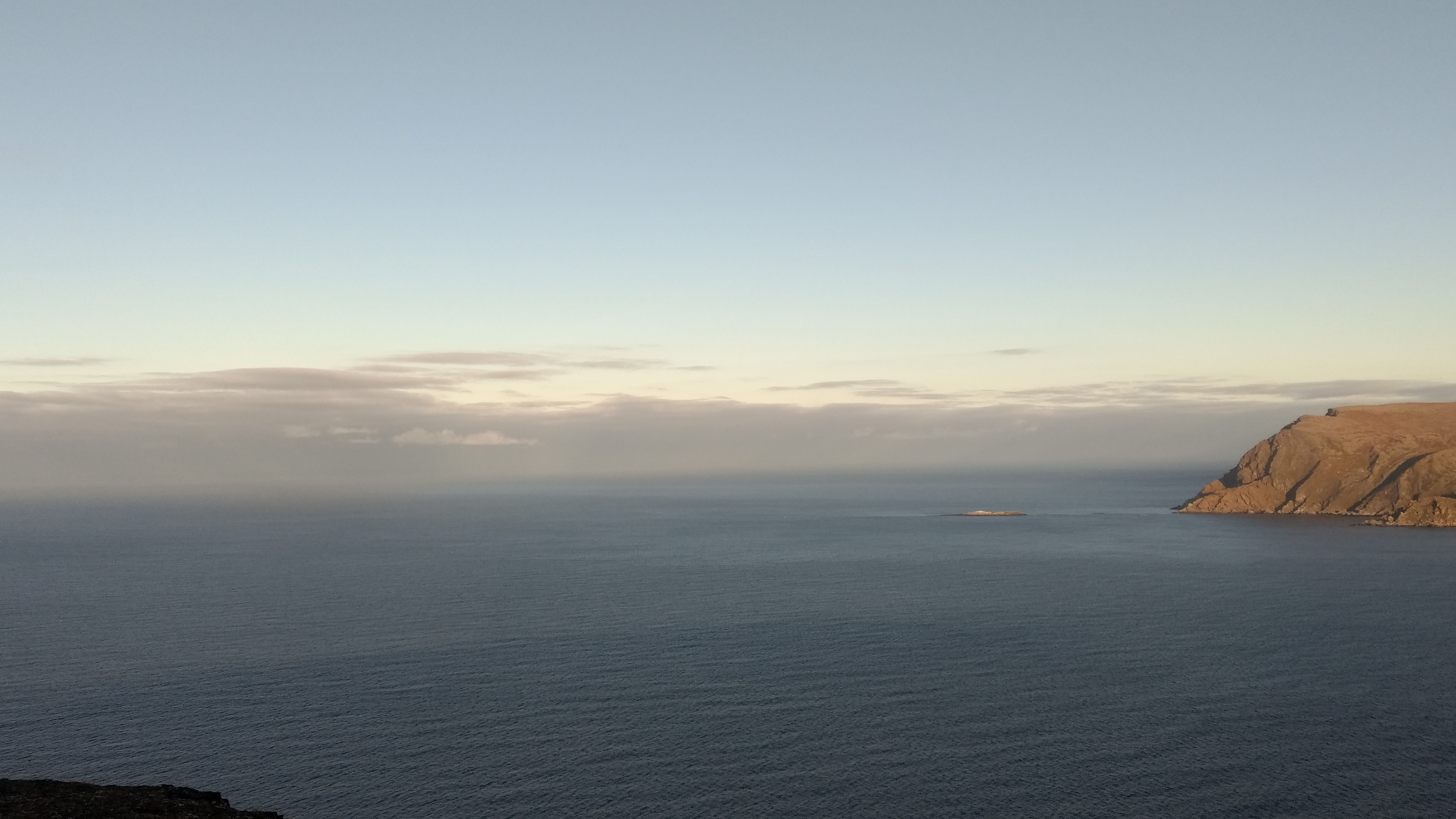 View from Artic View, Havøysund, Norway